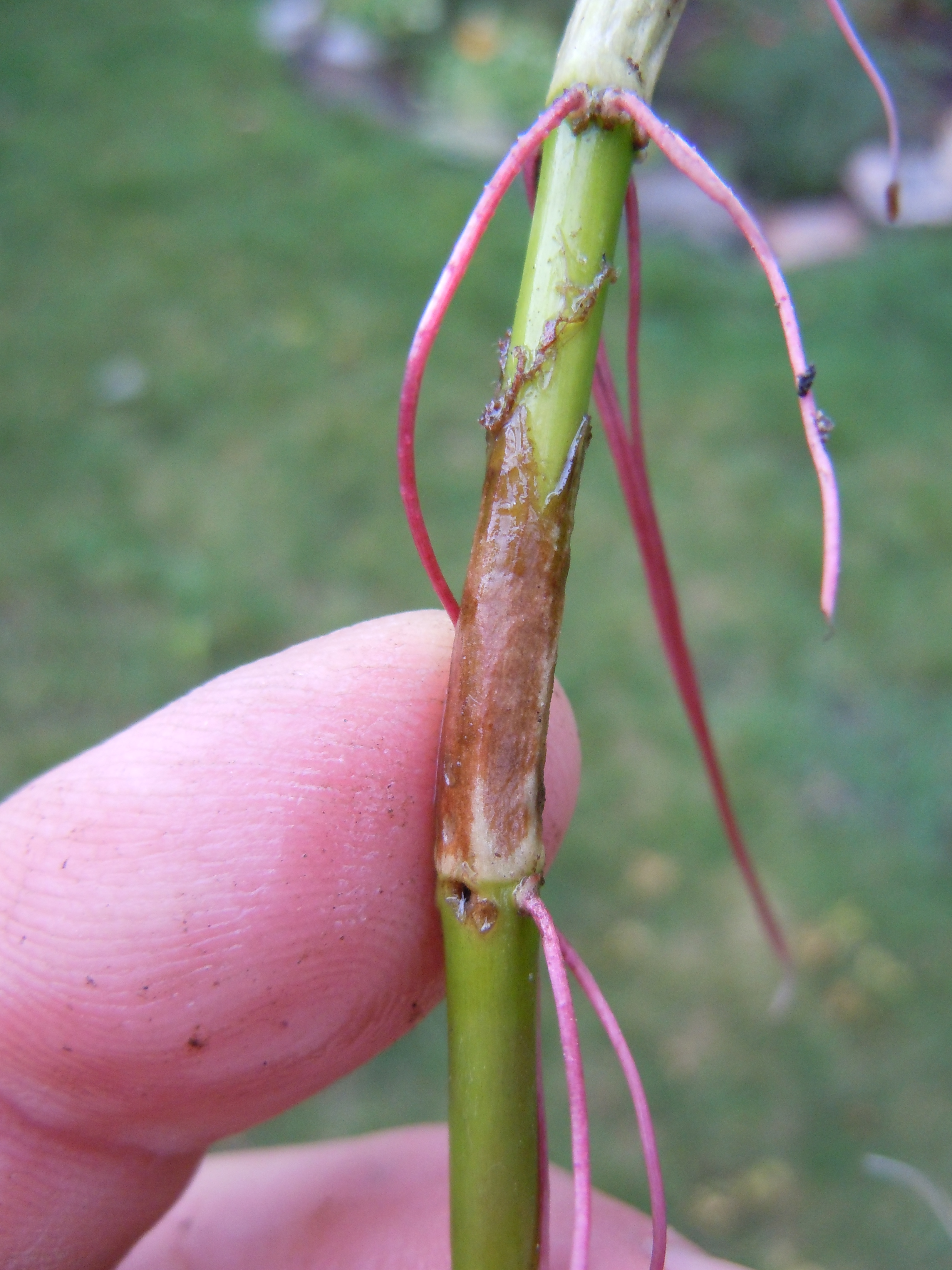 The lower stem nodes often show adventitious roots or root buds as well as the characteristic sheathing stipule of the Polygonaceae.